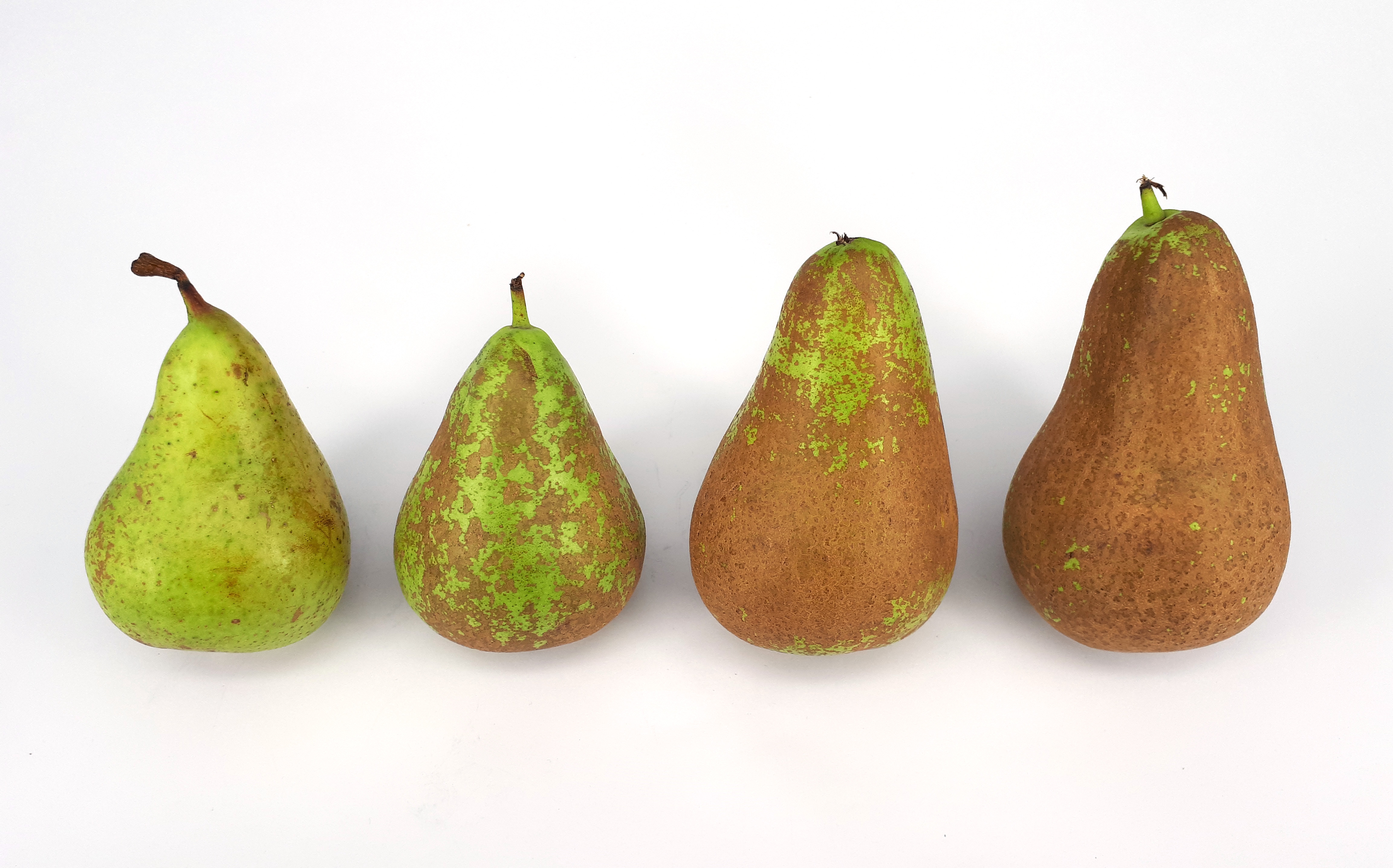 4 x Conference pear